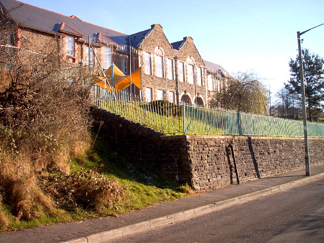 Bedlinog School. Bedlinog School is the last remaining school in the village, It is an English language school the nearest Welsh medium school is Ysgol Rhyd Y Grug in Quakers Yard